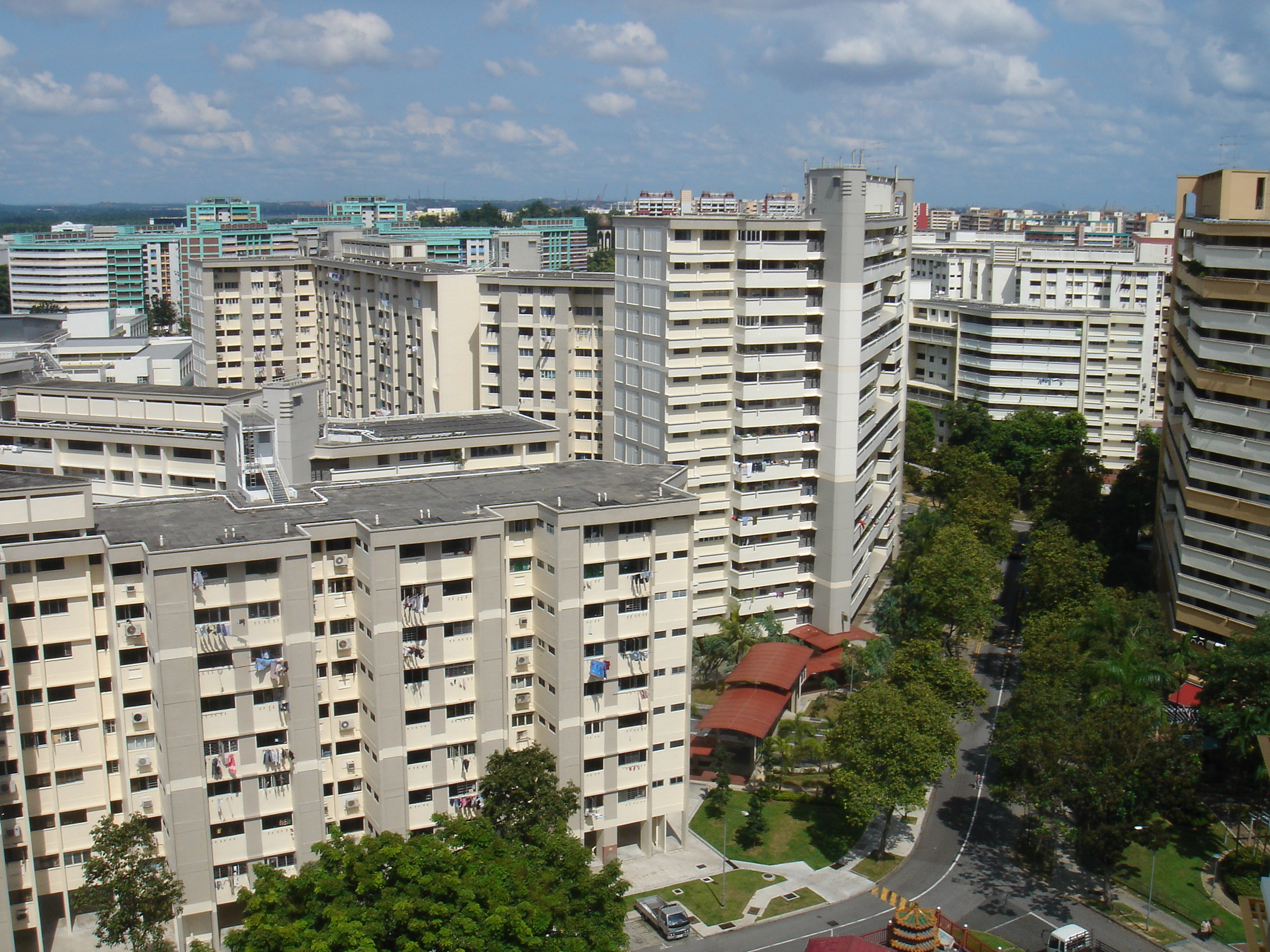 HDB estates in Yishun, Singapore.